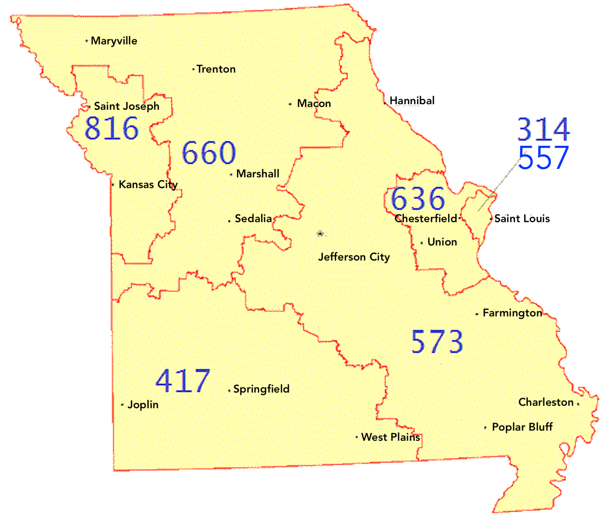 Missouri map with area codes and sections labeled.